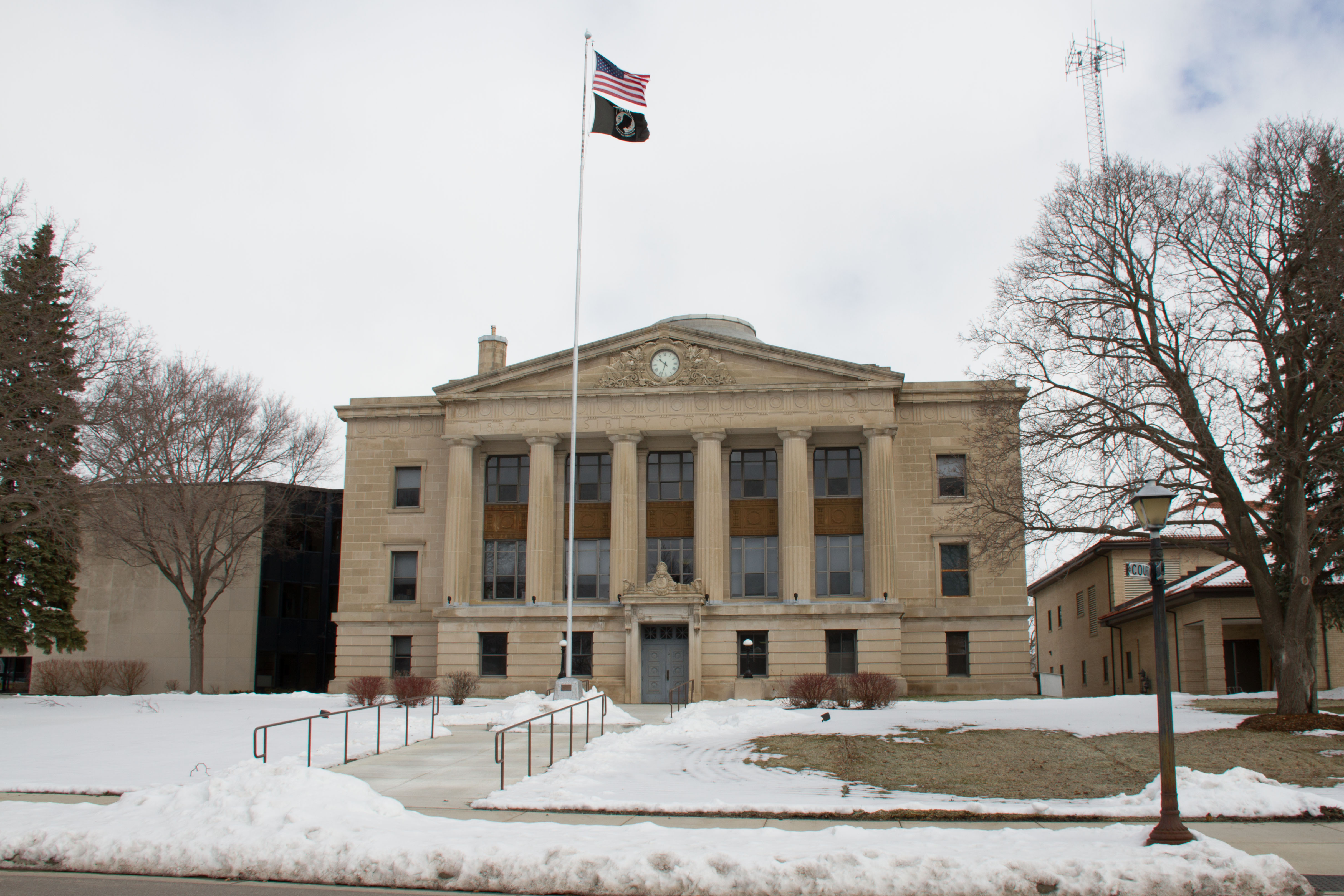 Sibley County Courthouse and Sheriff's Residence and Jail, primarily the courthouse and jail, Gaylord, Minnesota, USA.